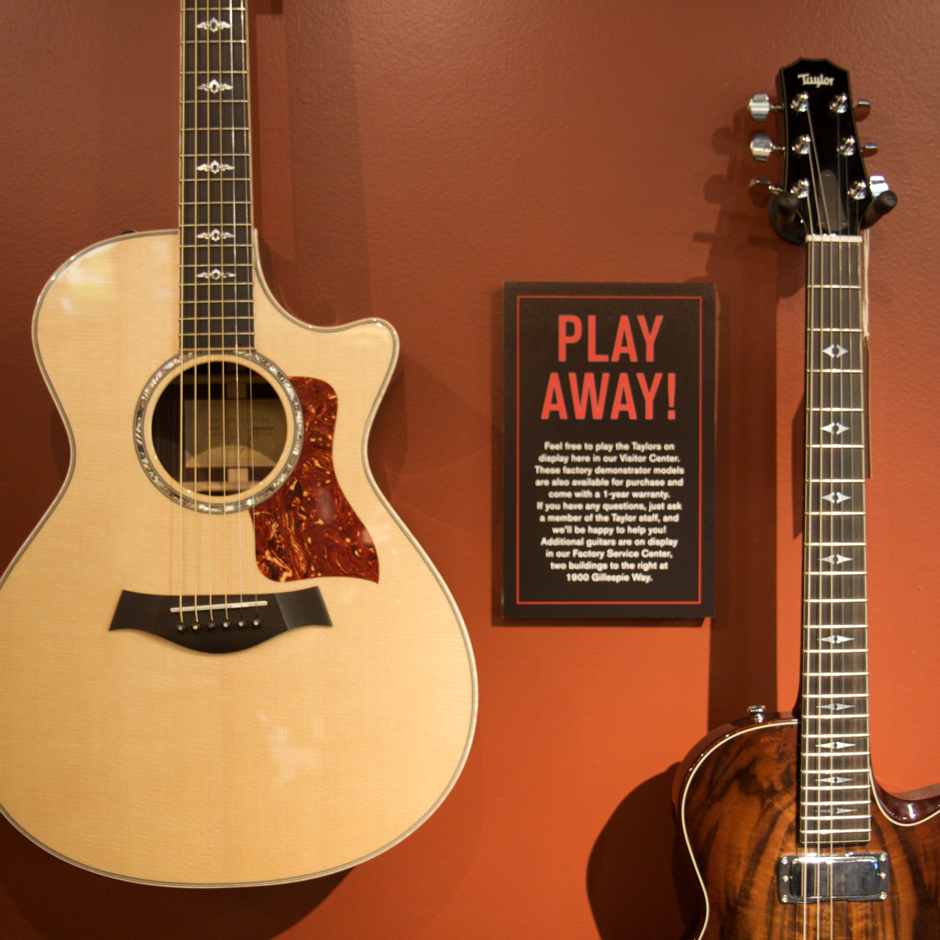 TGFT01 Play away - Taylor Guitar Factory